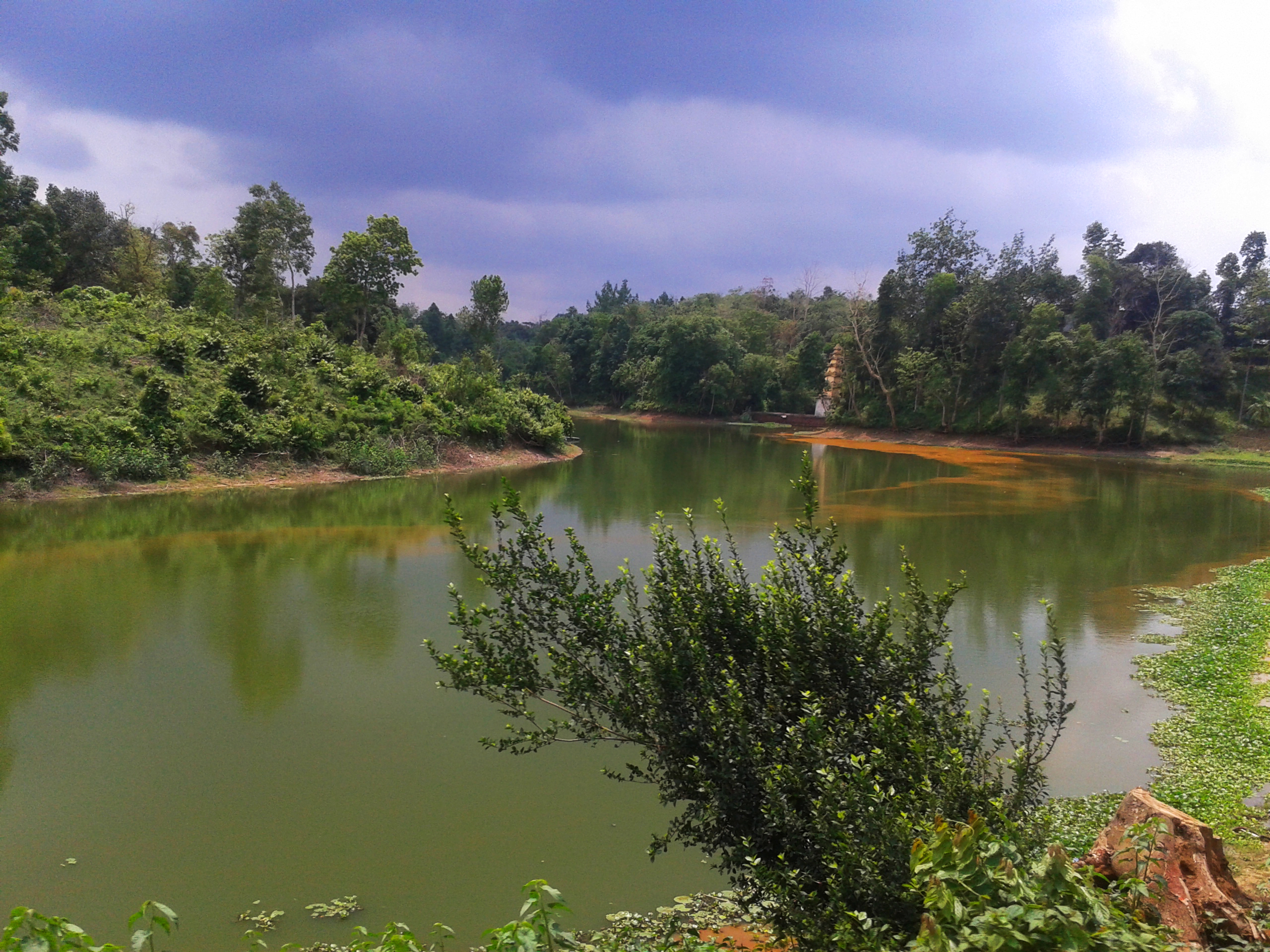 Natural Beauty of Dighi Nala at Khagrachari